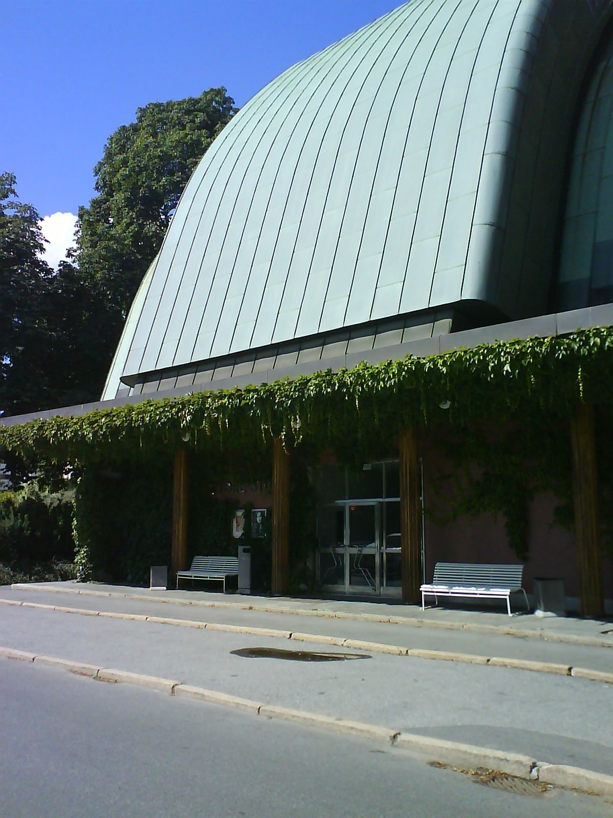 Store Studio, NRK Marienlyst